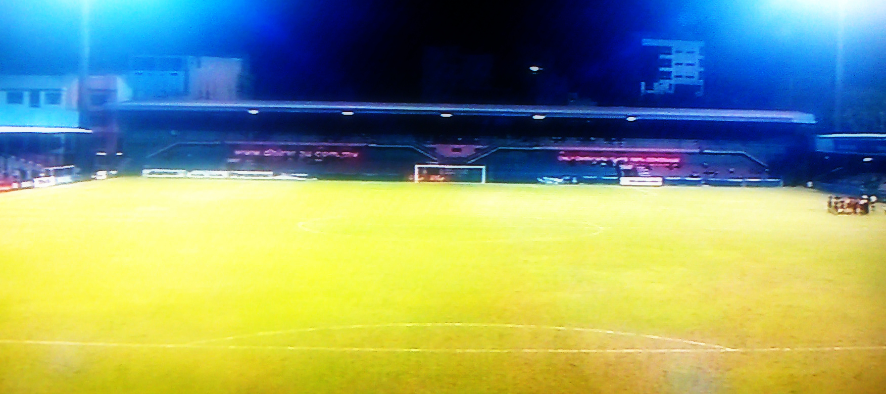 Rasmee Dhandu on the night of MILO Charity Shield match, 27th March 2012